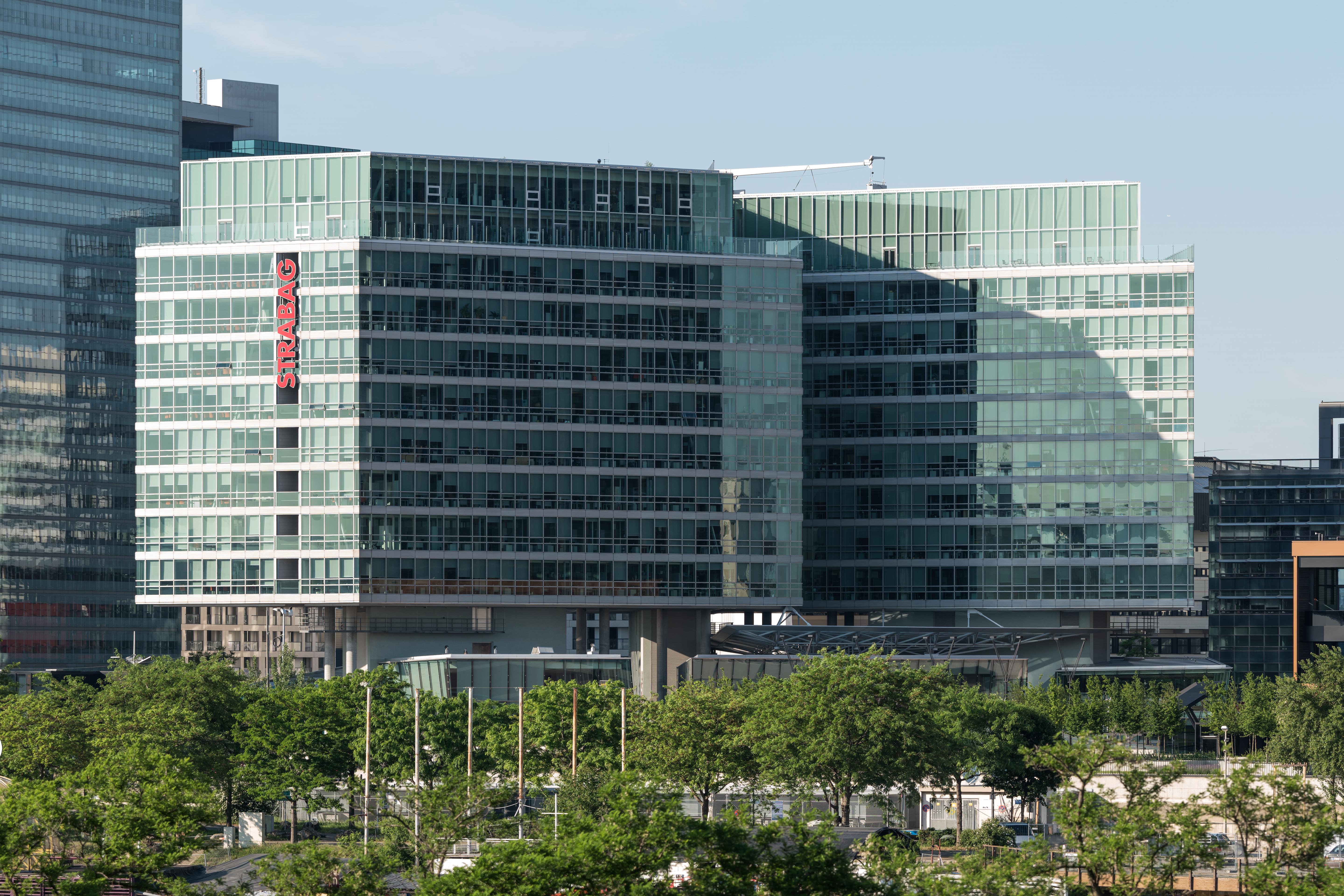 The Strabag Building in Vienna seen from south-south-west on June 2nd, 2015.